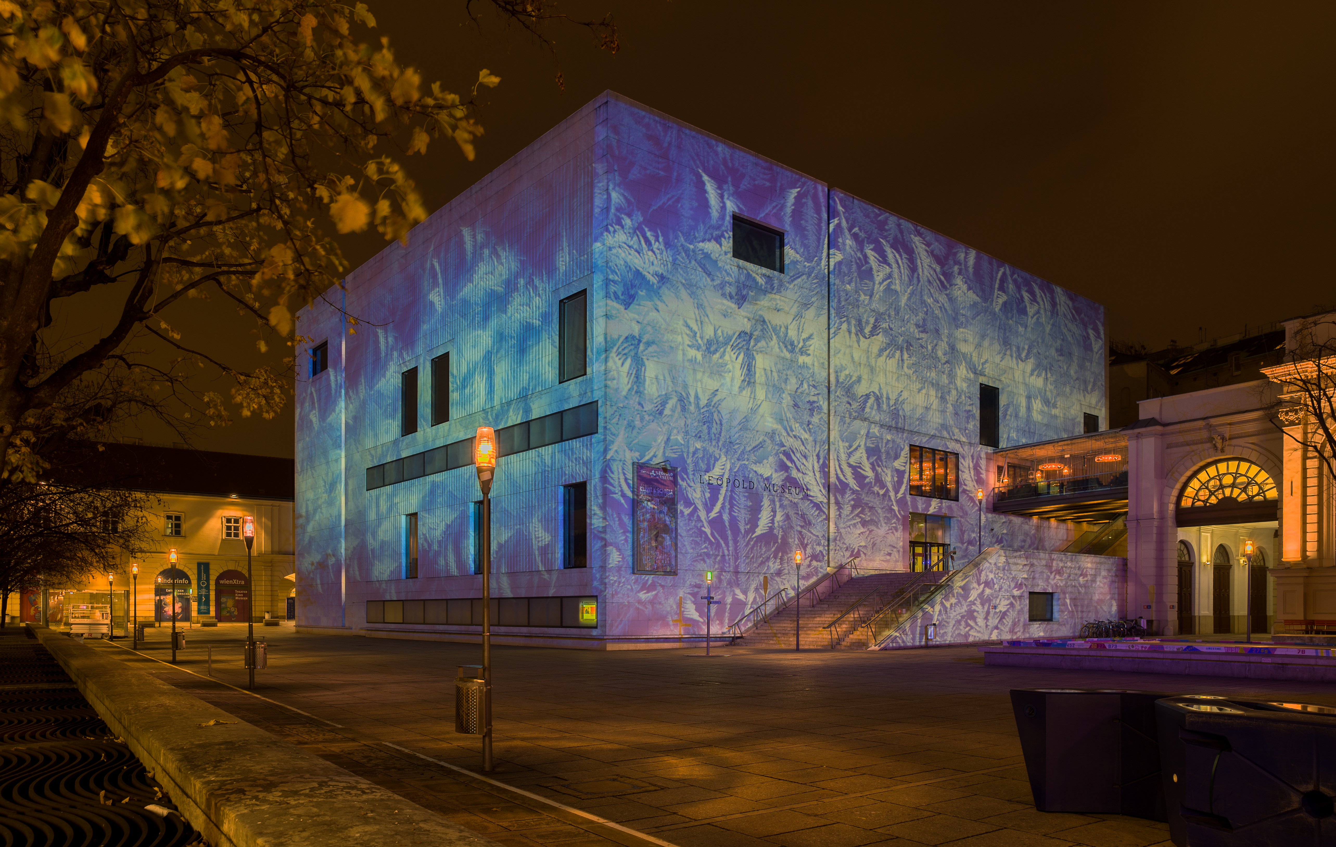 Before Christmas at the MQ - Museumsquarter, Vienna, AEB with 5 Exposures Die Herstellung oder Freigabe dieser Datei wurde durch Spenden an Wikimedia Österreich unterstützt. Weitere Dateien, die durch Unterstützung von Wikimedia Österreich hier veröffentlicht wurden, finden Sie in der Kategorie Supported by Wikimedia Österreich.